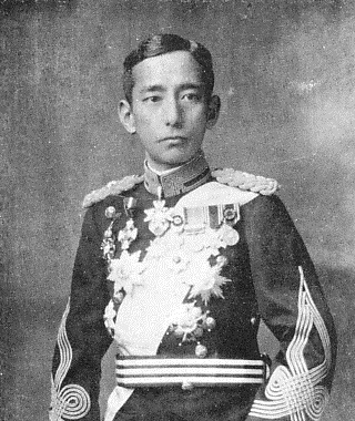 Toyokage Yamauchi